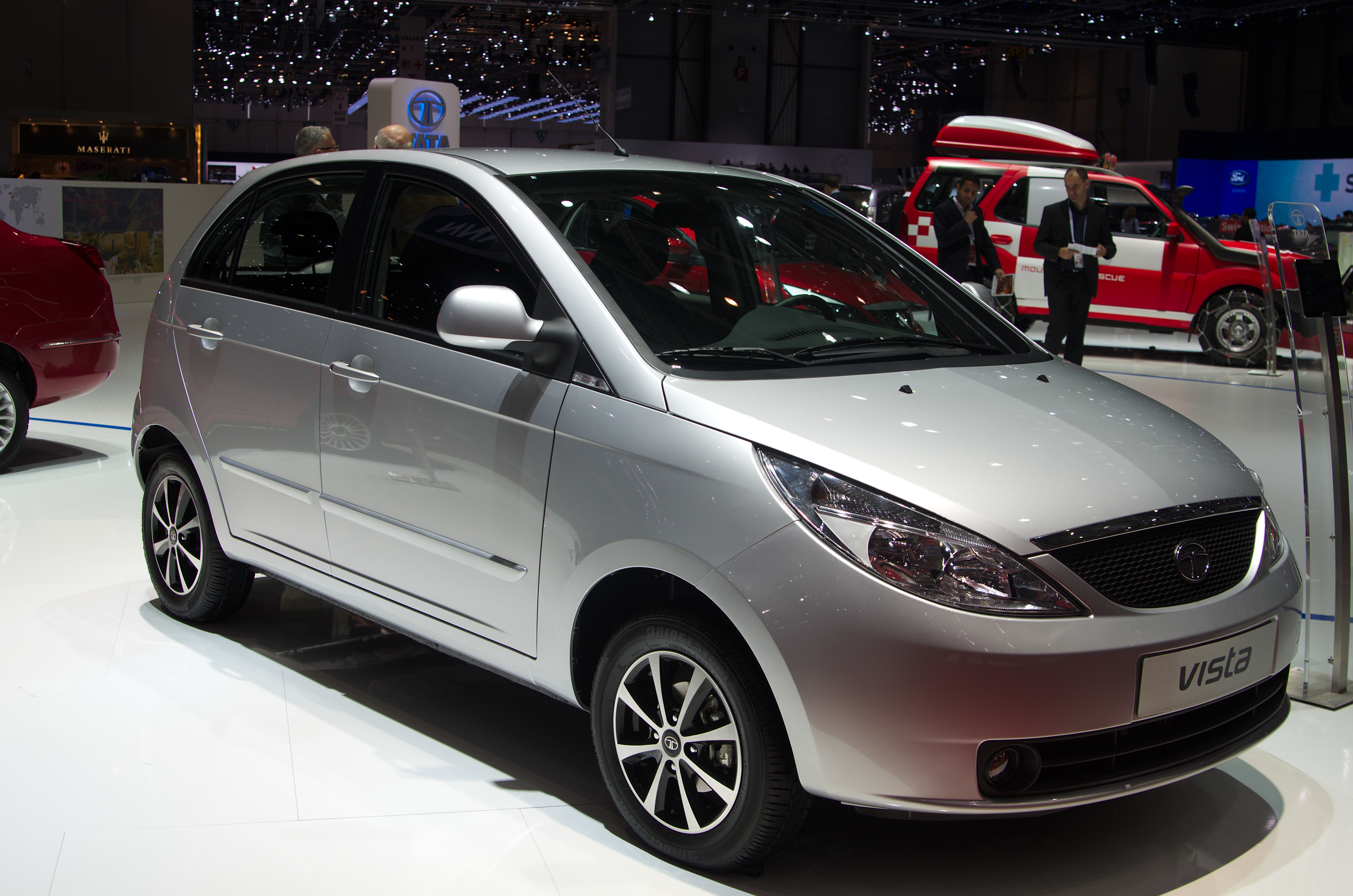 Geneva MotorShow 2013 - Tata Vista